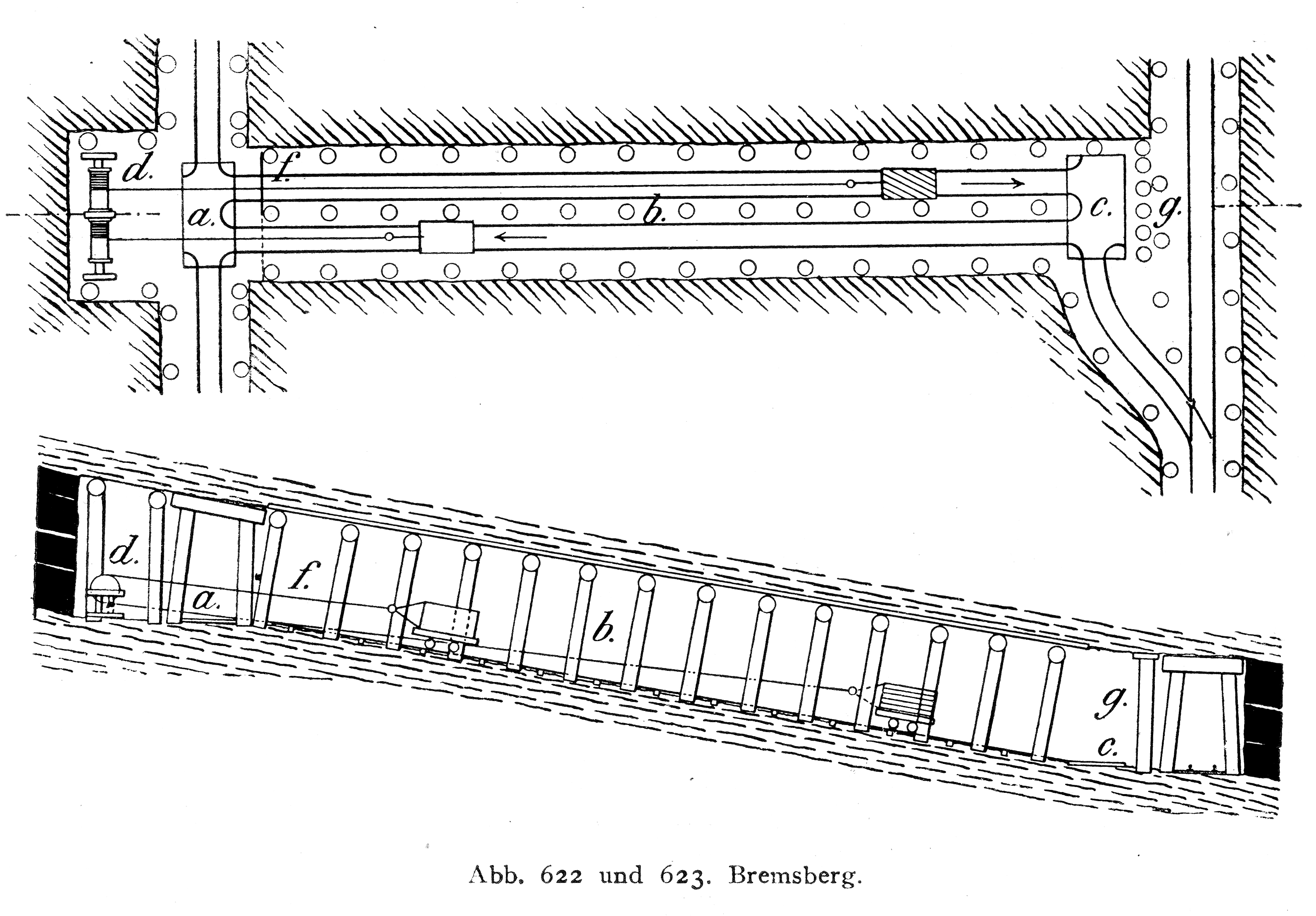 Schematic diagram of a brake mountain underground. a - head plate, b - the actual mountain, c - base plate, d - Instead of braking or brake reel, f - lock, g bolt protection in the basic line